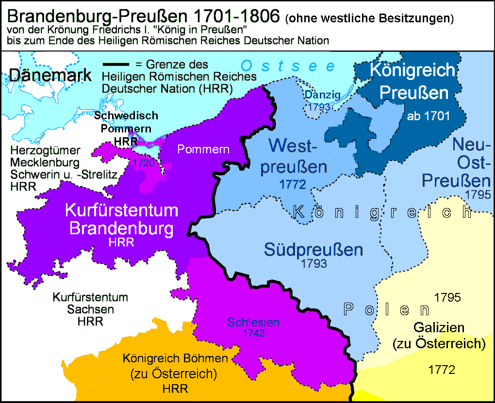 Map of Brandenburg-Prussia 1701-1806 without western territories; correction of HilmarHansWerner's version